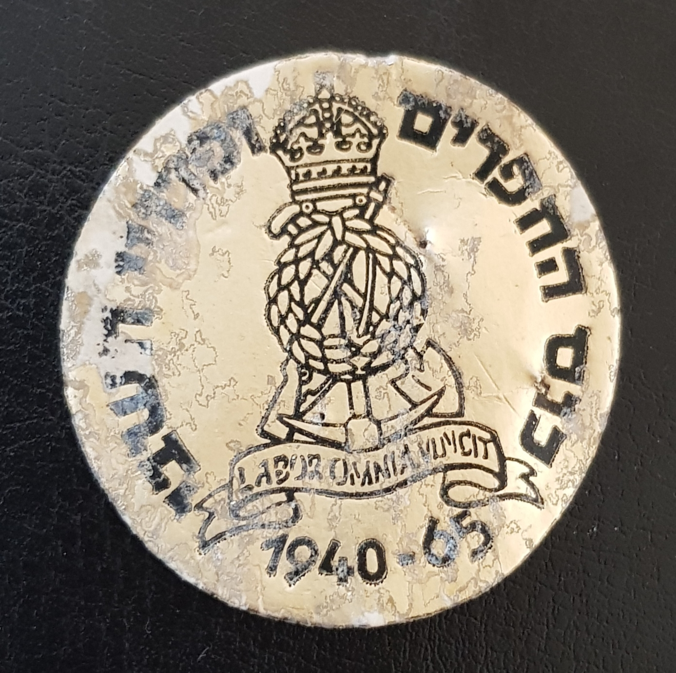 A symbol of the 25th Conference of Jewish Israeli Prisoners of War who volunteered to the British Army's Pioneers Corp. WW-2